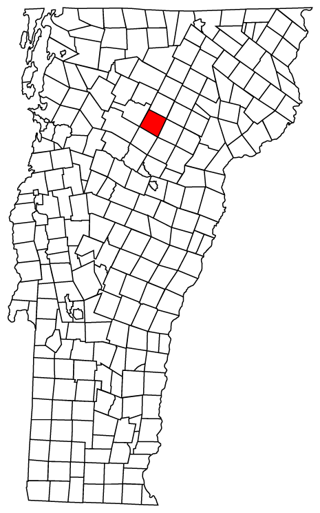 Description: Map of Vermont towns with Elmore highlighted Source: Map created by Jared C. Benedict on 26 March 2004. Copyright: © Jared C. Benedict.